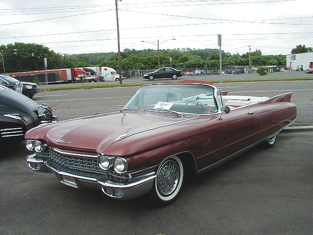 THEBIG429 Cadillac photo group Cadillacs in the rough photo group1960